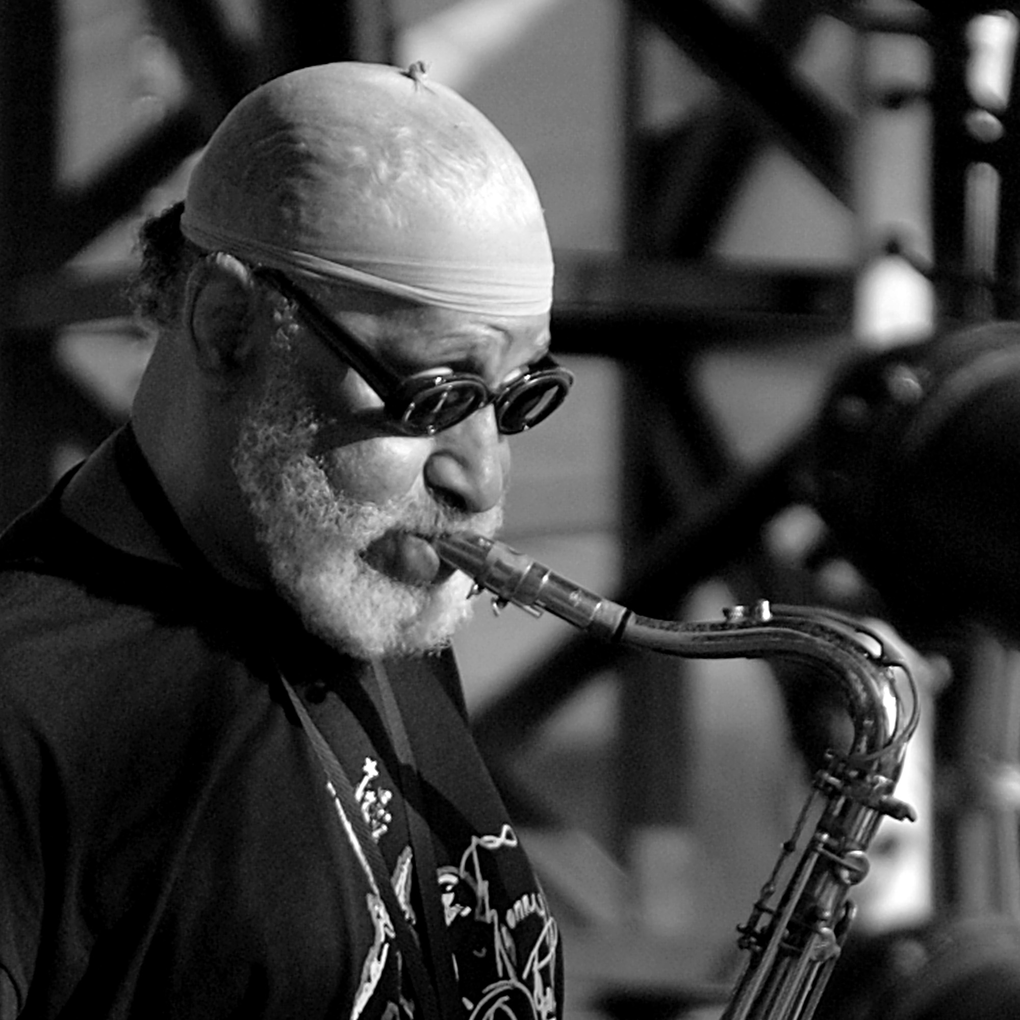 Outdoor portrait of Sonny Rollins, american jazz saxo player, taken on 2005-07-22 during the Jazz à Juan Festival (French Riviera), before his performance.